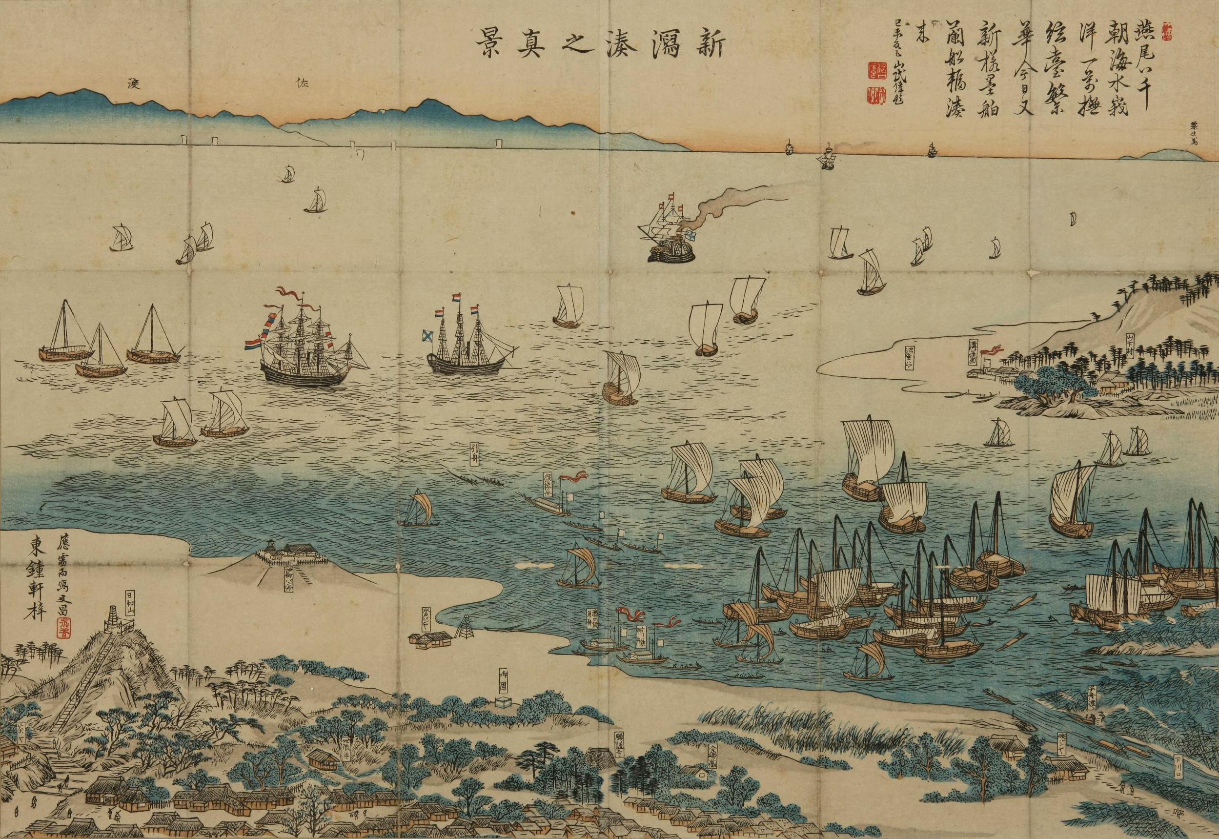 Nishiki-e "Niigata Minato no Shinkei" (View of Niigata Port). Collection of Niigata Prefectural Library.